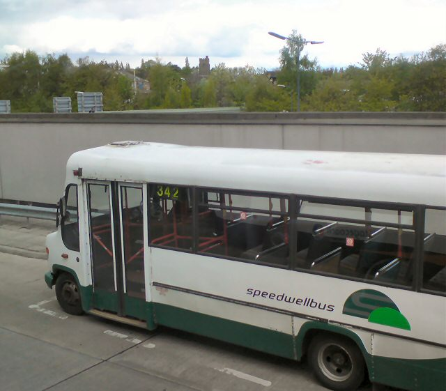 Bus Station View, Data from Geograph: Description: View from the top deck of a #330 bus waiting to depart for Ashton under Lyne. In the foreground is a Speedwell's bus on the #342 Back Bower circular route. In the background beyond the M67 motorway is the tower of Flowery Field church. ICBM: 53.452451603336, -2.0800712287907 Location: (about 1 km from) near to Hyde, Tameside, Great Britain.